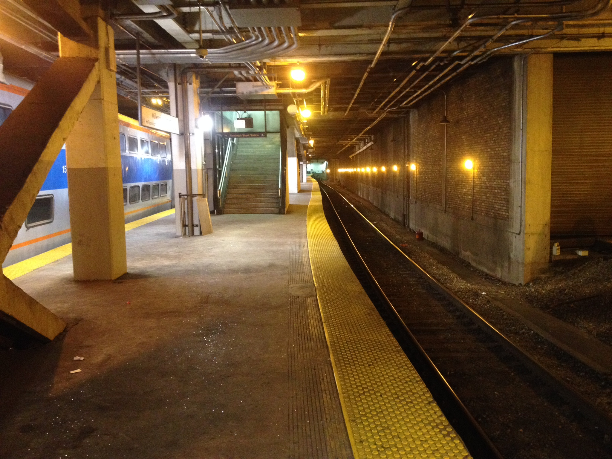 One of the Metra Electric District platforms at Millennium Station, looking inbound towards the bumper block at the end of the platform.